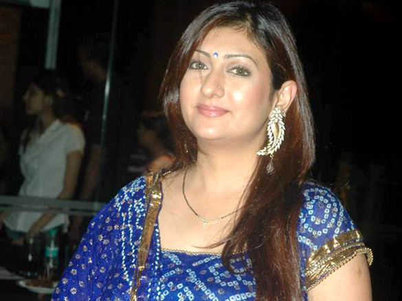 Juhi parmar at vikas's wedding